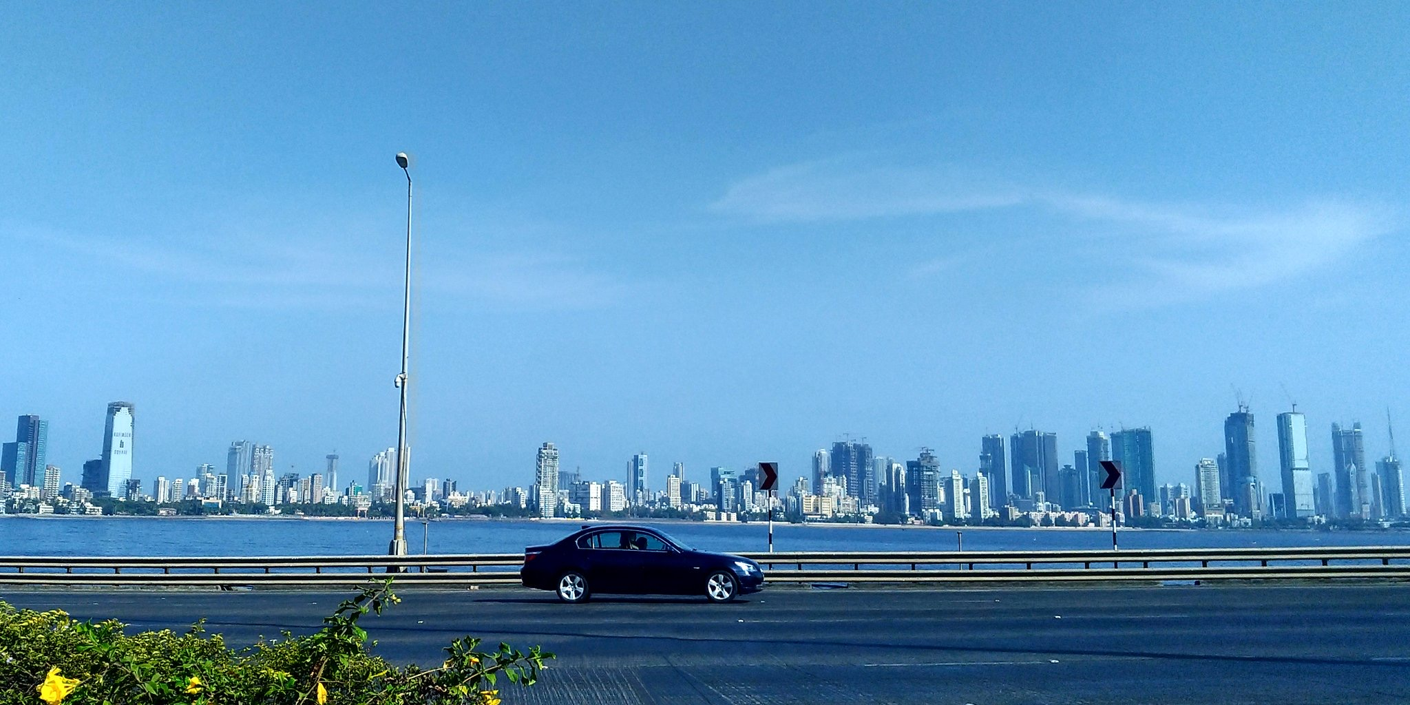 Mumbai city skyline on a clear sunny day